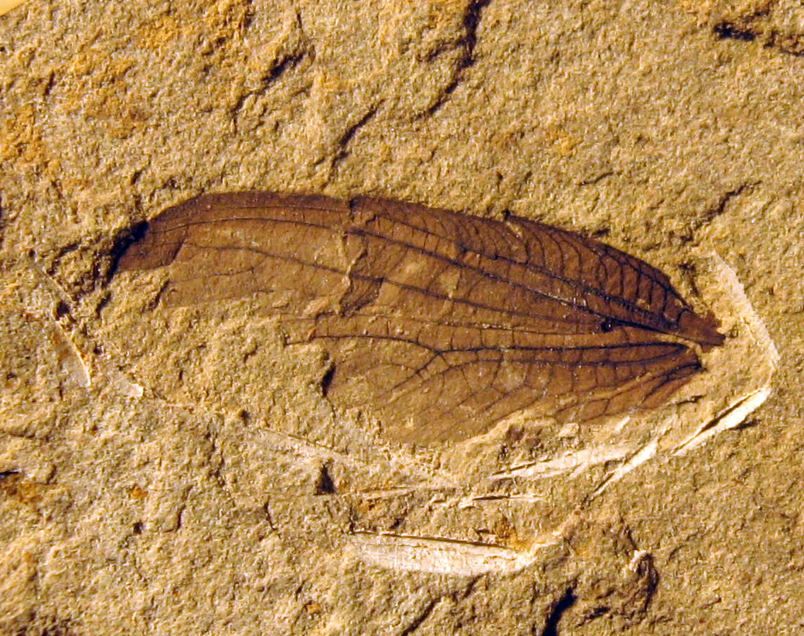 Holotype forewing (probably left), of the extinct Allorapisma chuorum. photographed prior to cleaning and description. 48.5 Million Years old; Klondike Mountain Formation, Republic, Ferry County Washington, USA. Stonerose Interpretive Center # SR 08-14-01